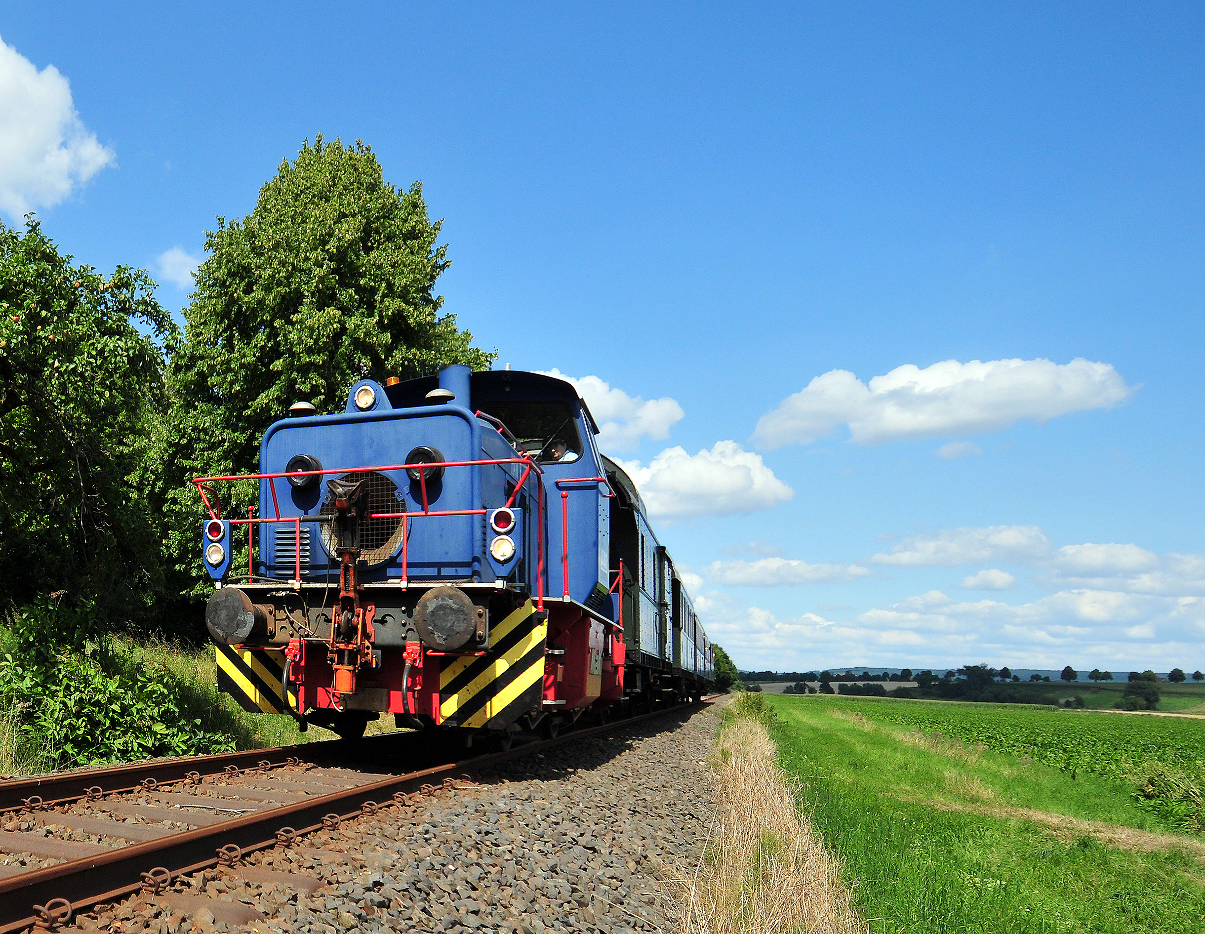 The Maschinenbau Kiel in Kiel, Germany made 1966 this diesel locomotive MaK G 320 B ex No. 220083. The locomotive has the name HAW 9 and belongs to the HAW Linings GmbH in Bornum. Sometimes pulls the locomotive this Heritage railway in Northern Germany.